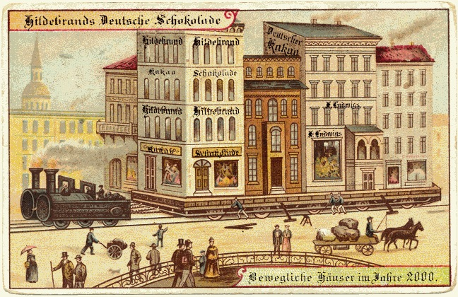 Germany in 2000 year (XXI century). Steam relocation "Hildebrand" houses (mobile building). Germany, Hildebrand Factory chocolade.